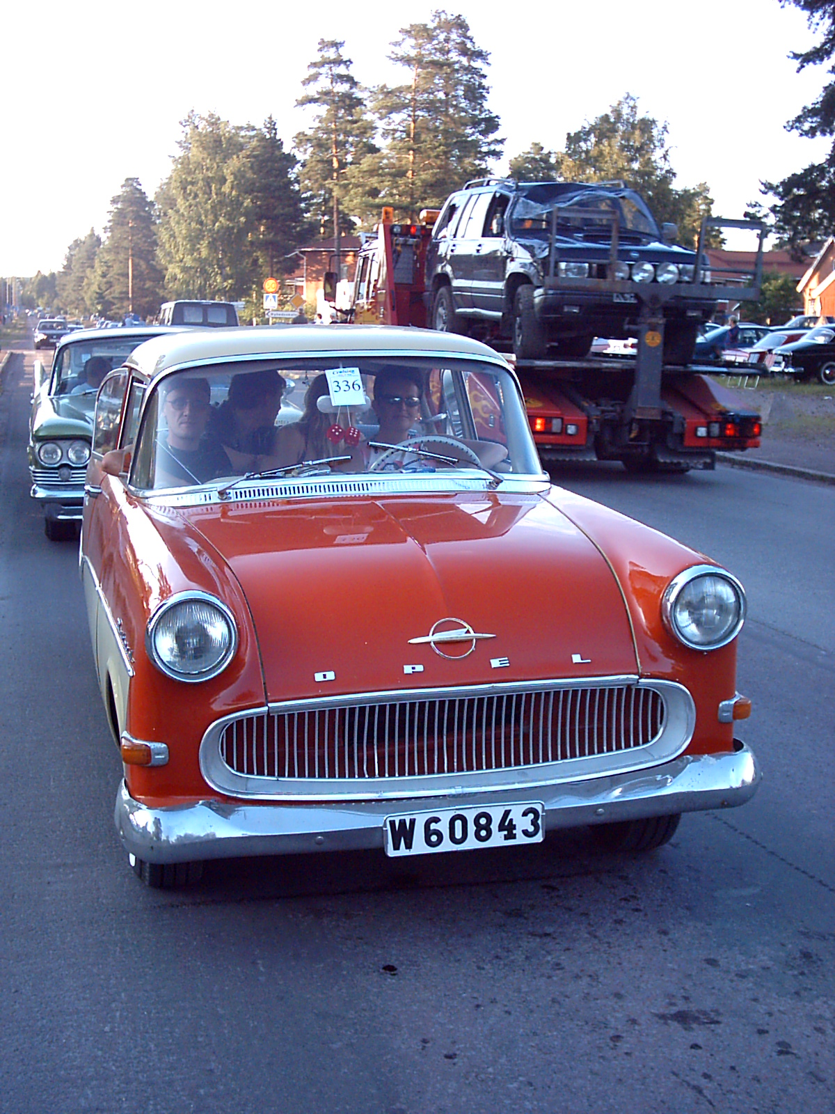 Opel Rekord P1 with historic swedish plate